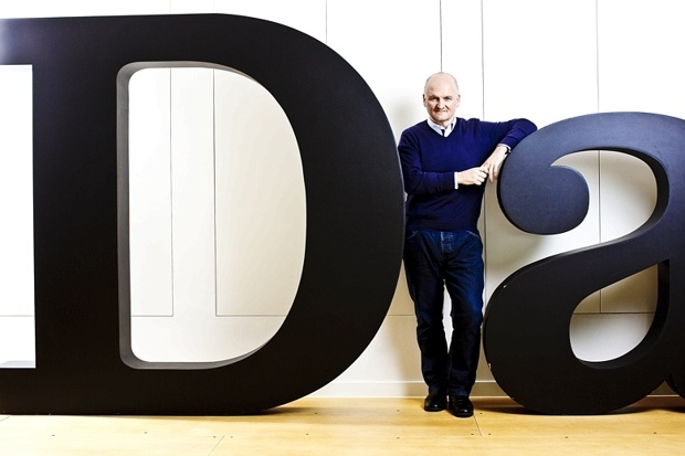 Darren Childs at UKTV's work space in London.